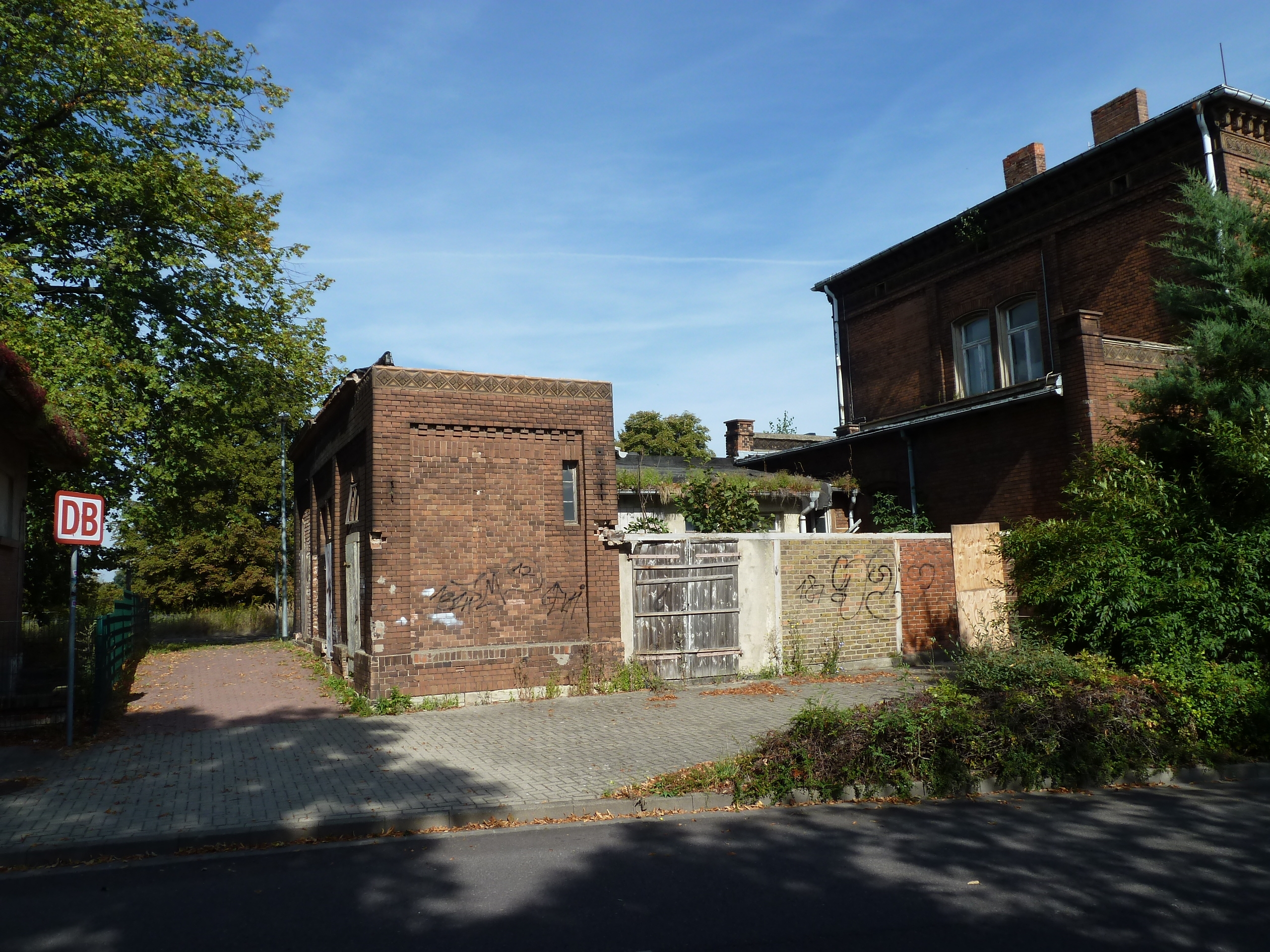 Train station Calbe (Saale) West, access to platform